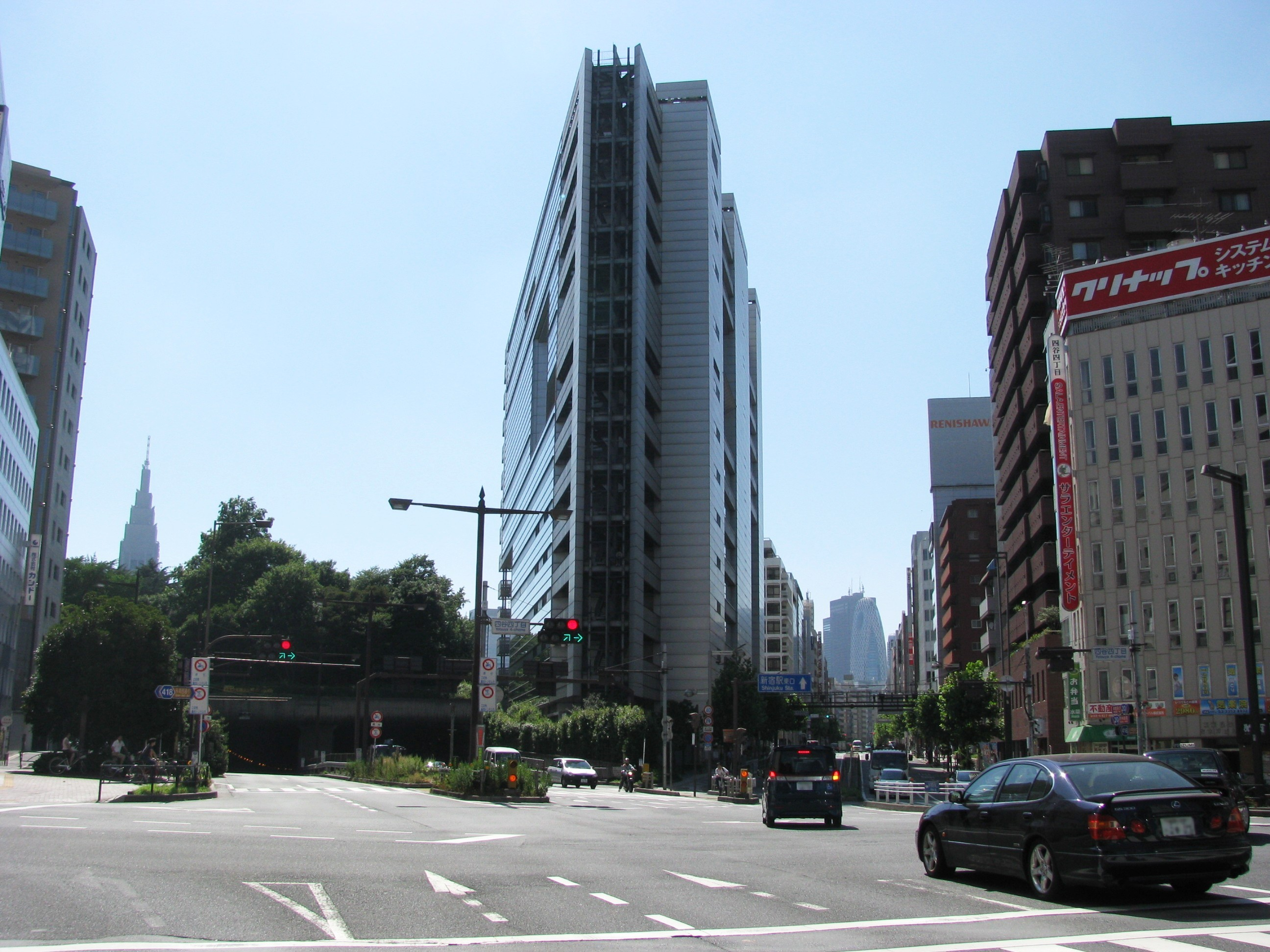 The Yotsuya 4-chōme intersection is crossing of Japan National Route 20, Tokyo prefectural road route 418 and Tokyo prefectural road route 430. View from Yotsuya to Shinjuku, in Shinjuku-ku, Tokyo, Japan.